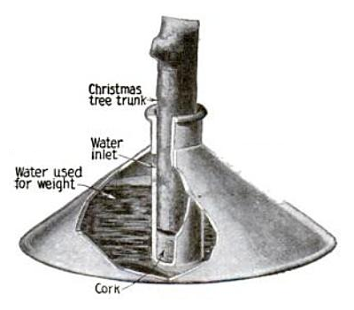 In 1919, an American monthly magazine Popular Science touted a new type of Christmas-tree stand. The stand featured a broad, cone-shaped base that included an inlet for water and the Christmas tree trunk. Water placed in the galvanized iron shell would give considerable weight to the stand to steady the tree. Once the tree trunk was inserted into the water inlet, the tree would be kept fresh and green much longer than without the water supply.